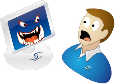 fear of computers